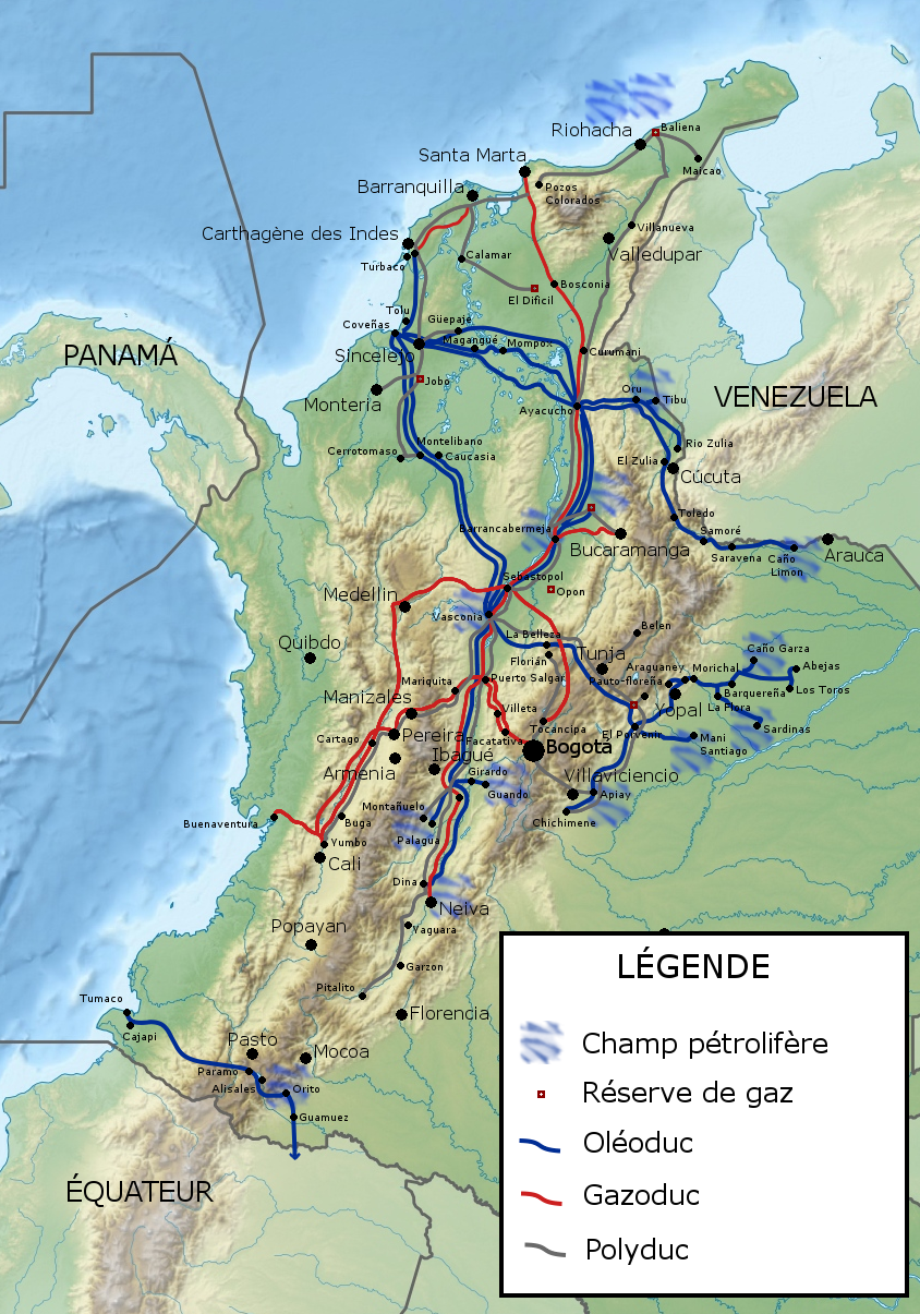 Map of the pipelines in Colombia (french text)